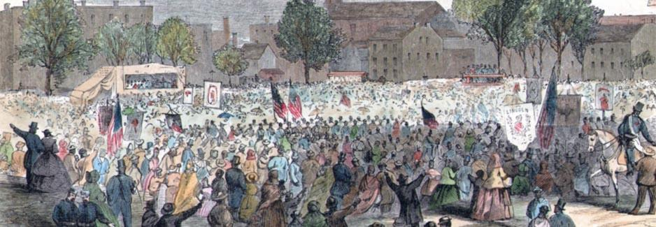 Washington DC during Emancipation Day celebration